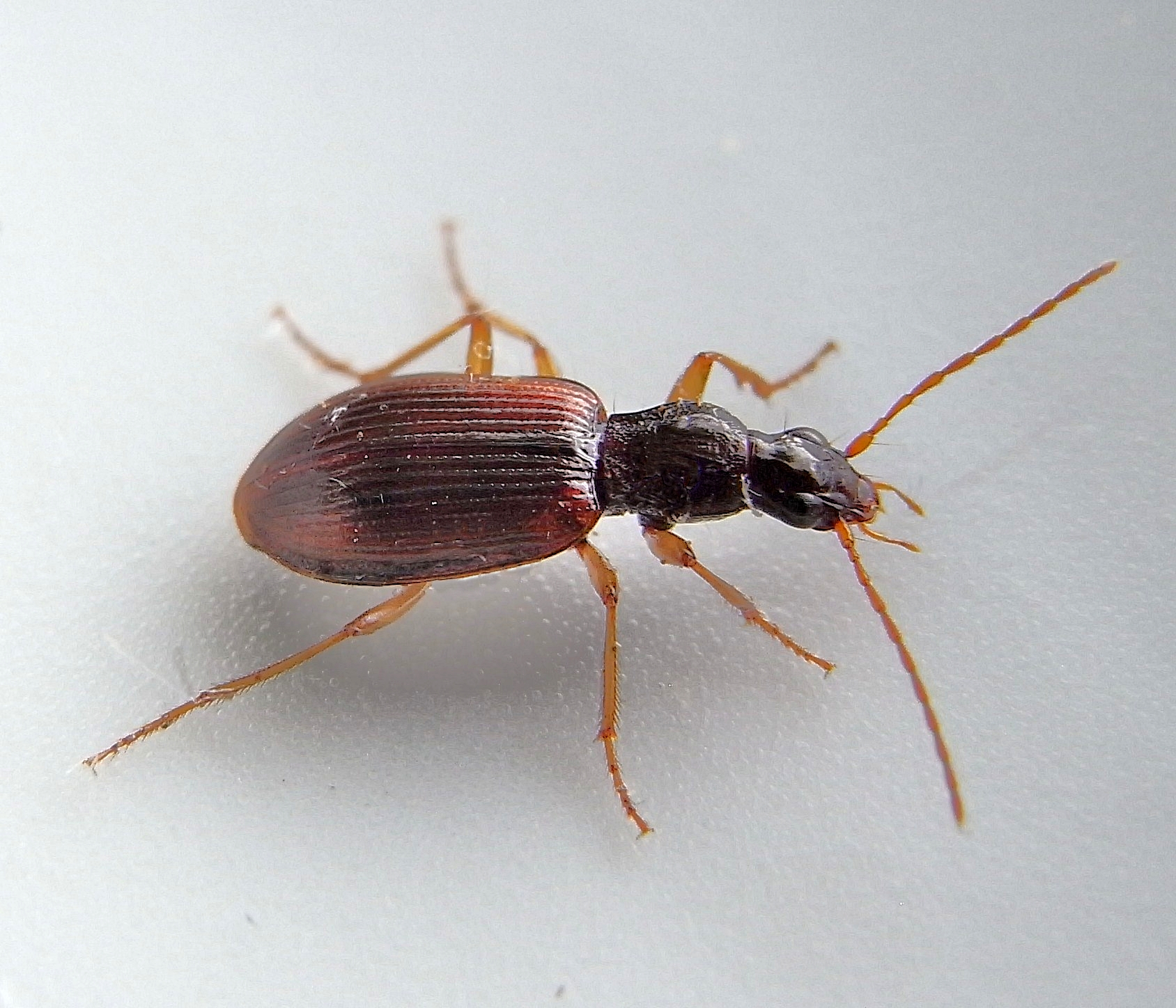 Oxypselaphus obscurus from Hungary near Mezötur at 2010-05-30